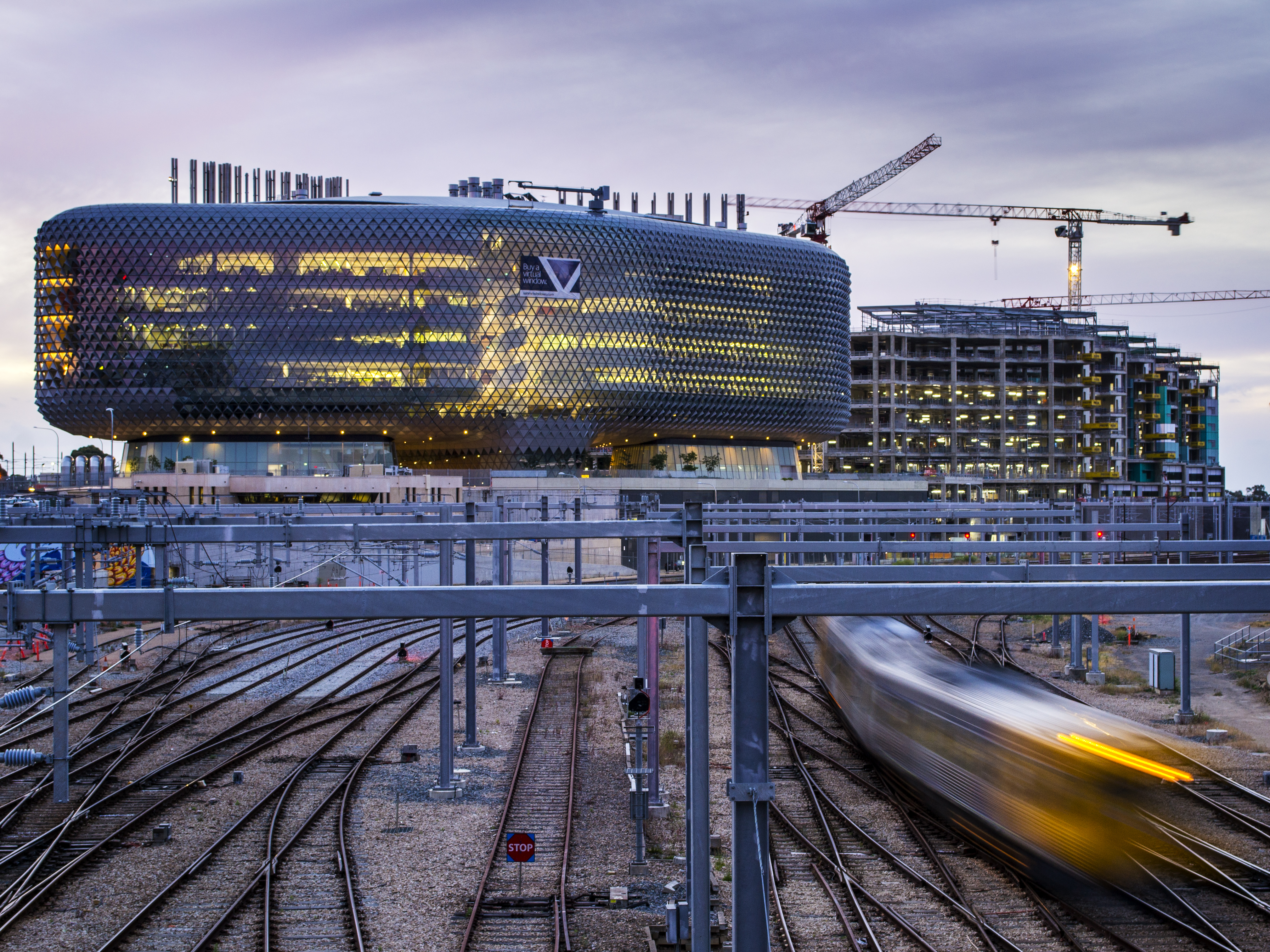 SAHMRI health research centre in Adelaide